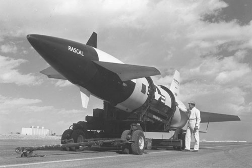 GAM-63 RASCAL on Trailer